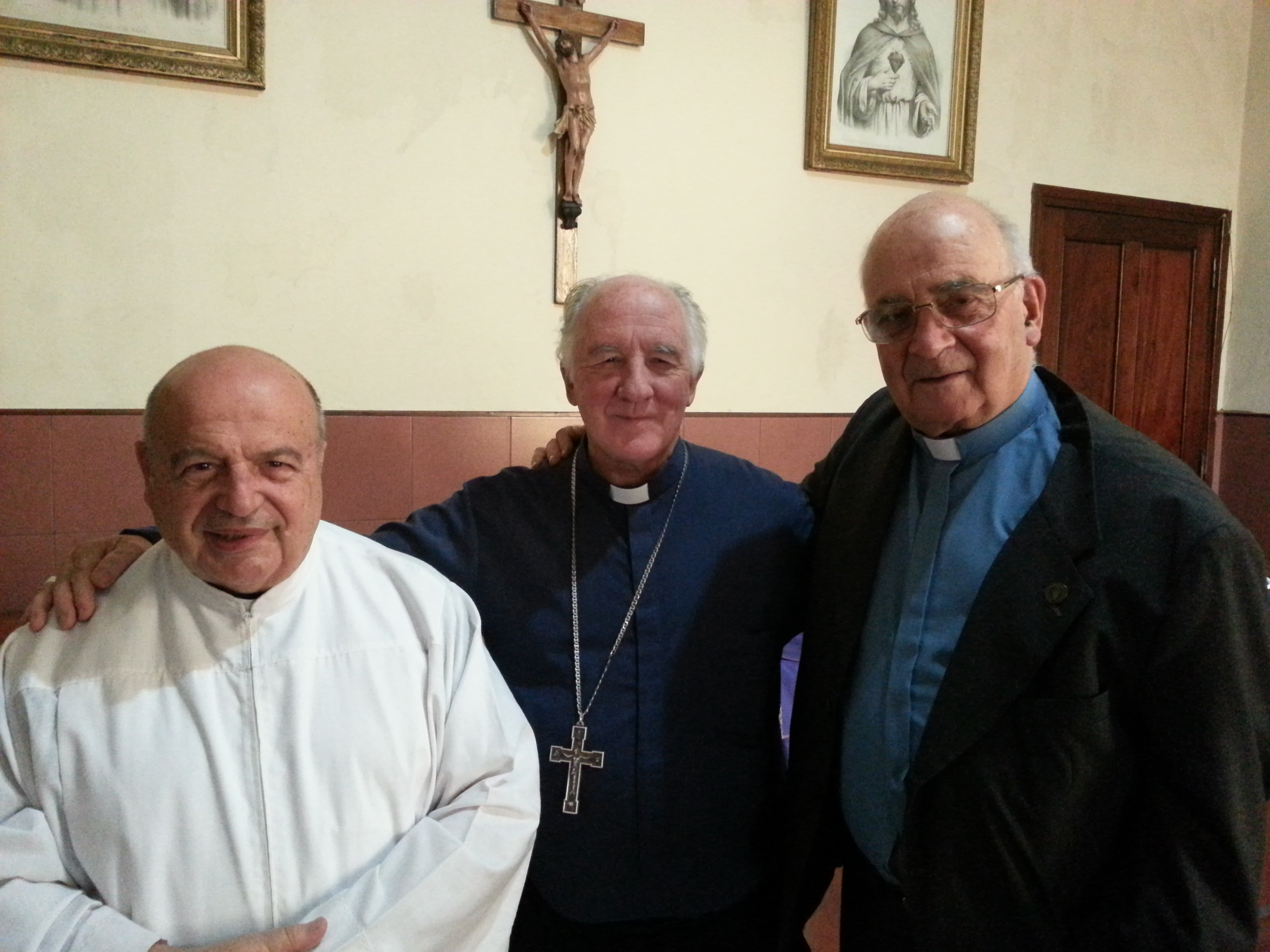 From left to right: Mgr Antonio Domingo Aloisio, Mgr Fernando Carlos Maletti (bishop of Merlo-Moreno), and Mgr Roberto Lella (chaplain of the Monasterio Santa Teresa de Jesús and director of the pastoral care in the Archdiocese of Buenos Aires.